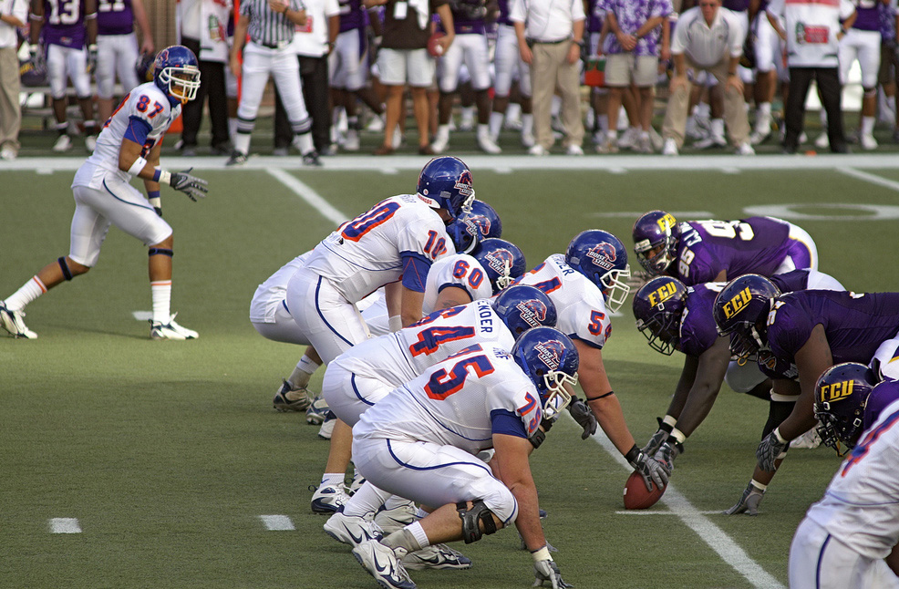 Boise State University vs East Carolina University - BSU Offense